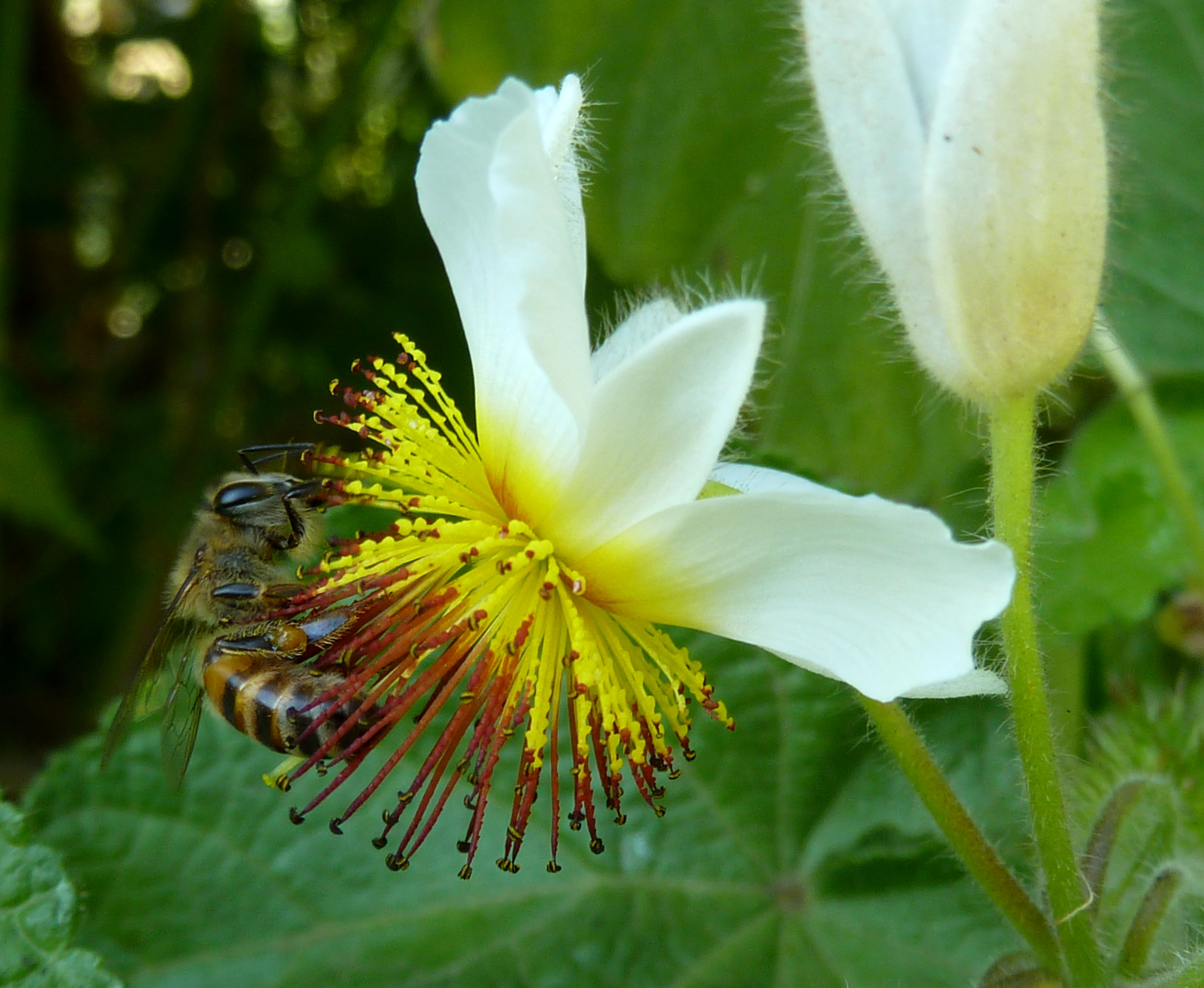 Bee on flower of African hemp in Jan Celliers Park, Pretoria